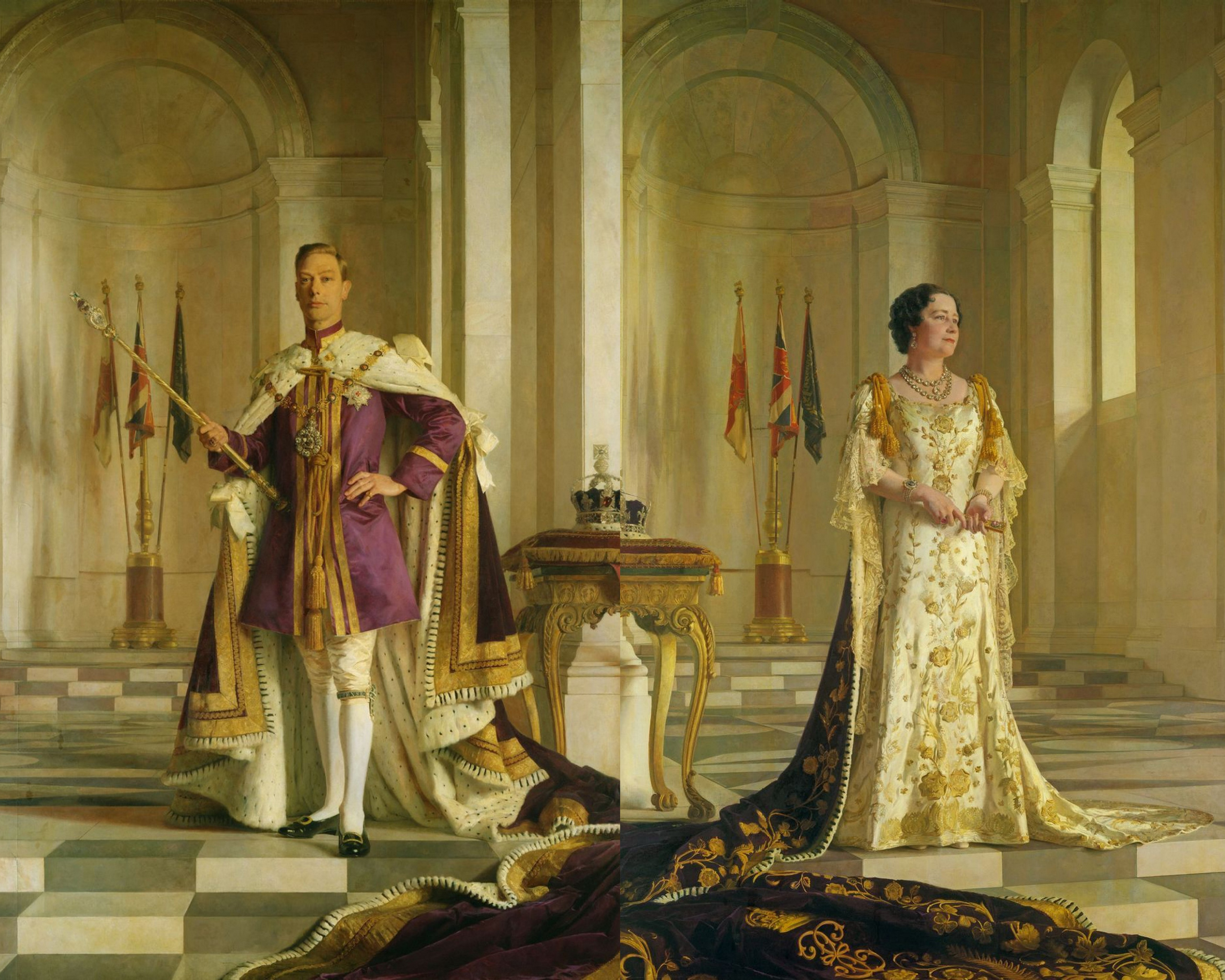 Coronation portraits of King George VI and Queen Elizabeth